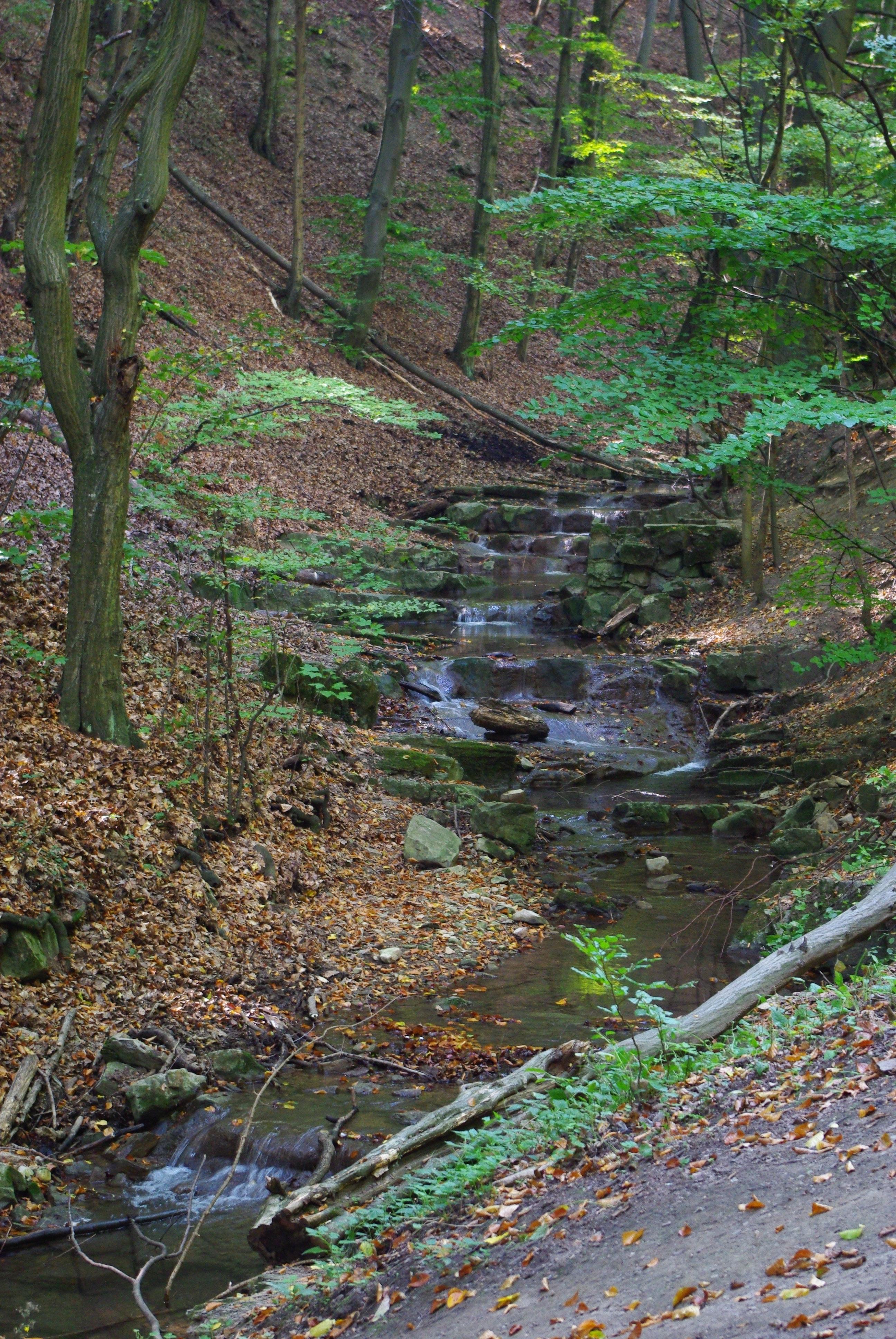 stream from Kisújbánya to Óbánya